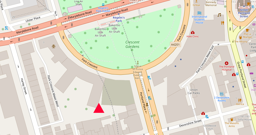 Approximate location of an 18th-century ice well behind Park Crescent West, London; the well marked with a red triangle, superimposed over an OpenStreetMap outtake (issued under CC-BY-SA licence).